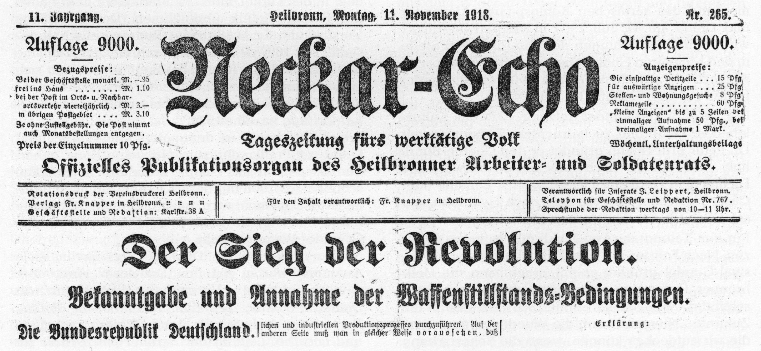 Masthead of the Heilbronn newspaper Neckar-Echo from November 11, 1918